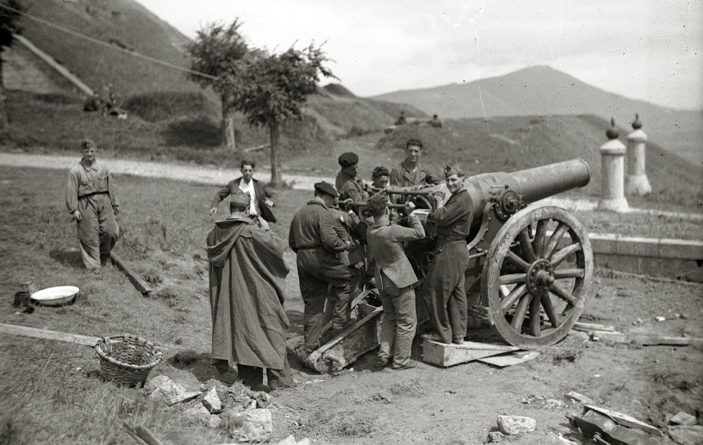 Republicans loading a cannon at the fortress San Marcos, near Donostia (San Sebastián)